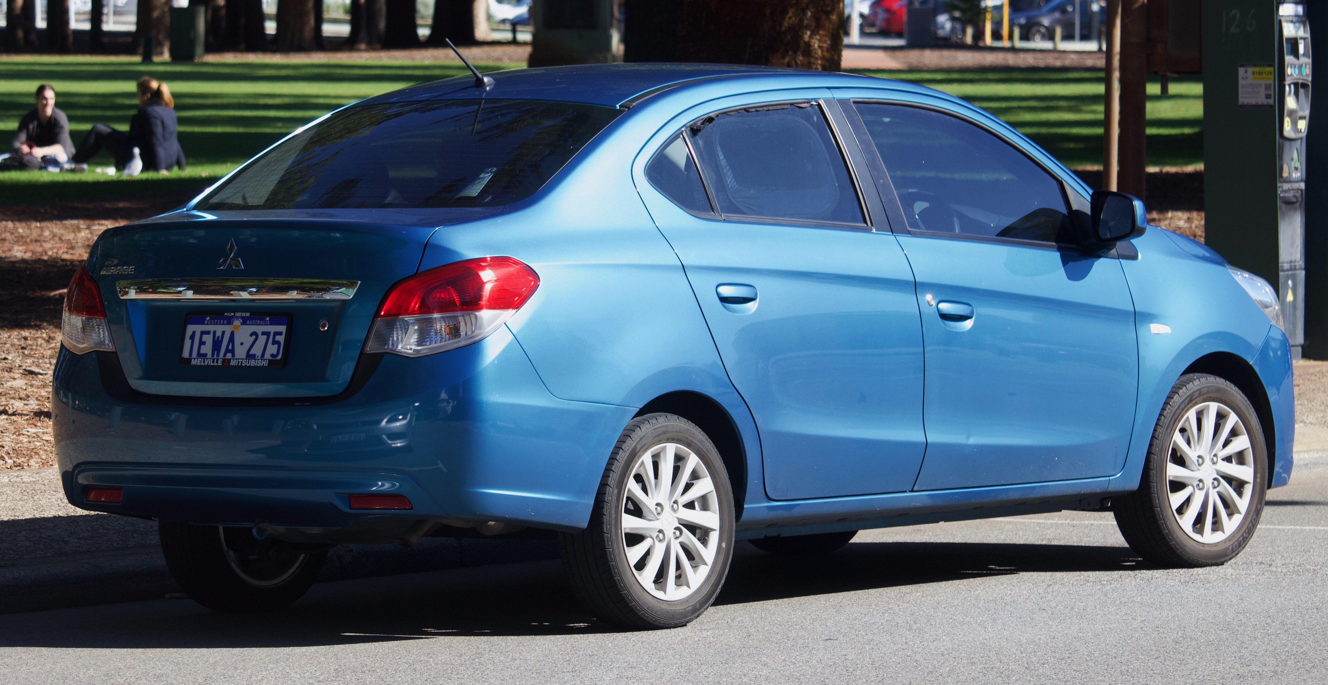 2015 Mitsubishi Mirage (LA MY15) sedan. Could not tell whether it was ES or LS. Photographed in Fremantle, Western Australia, Australia.